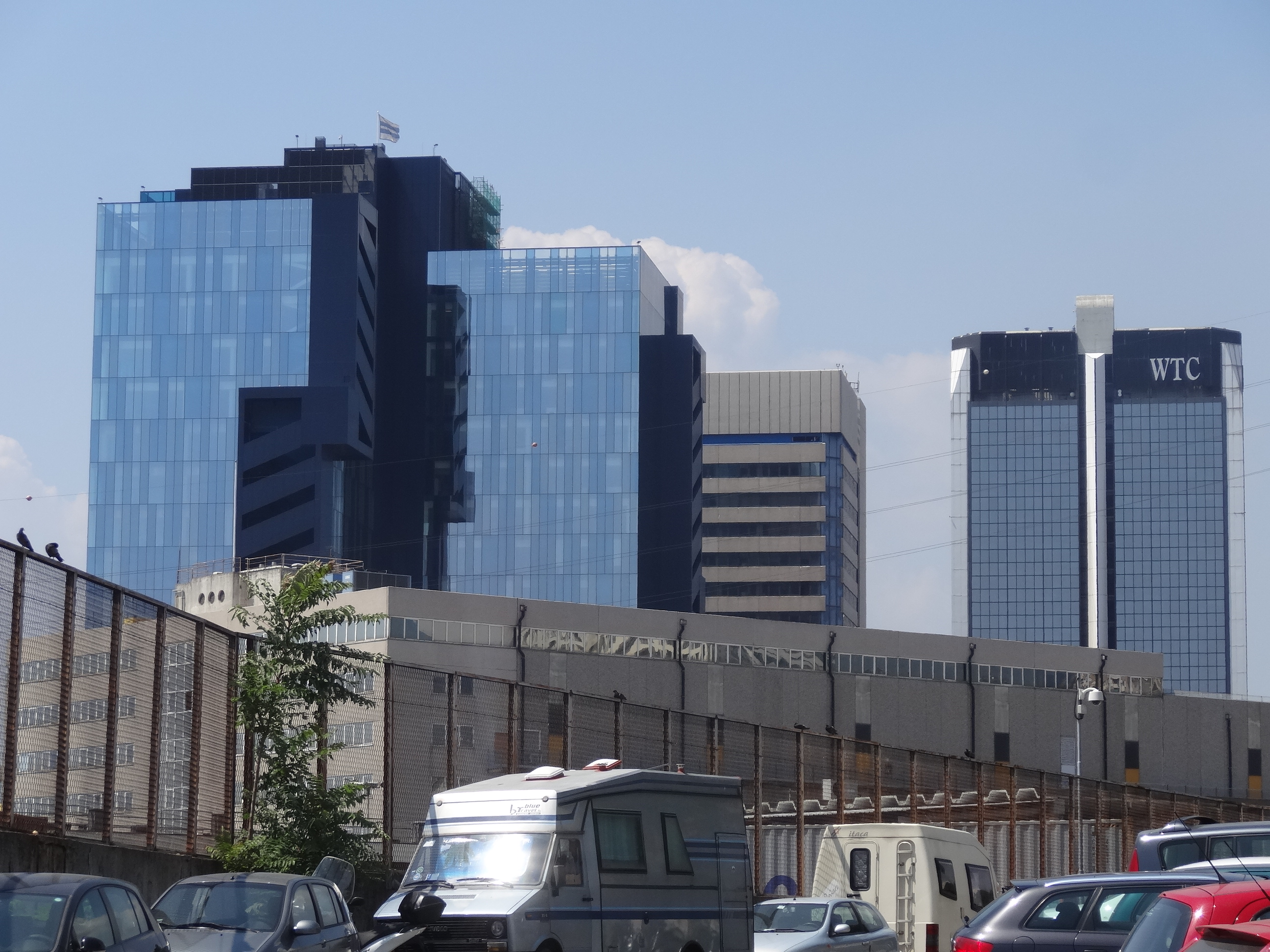 WTC Genova